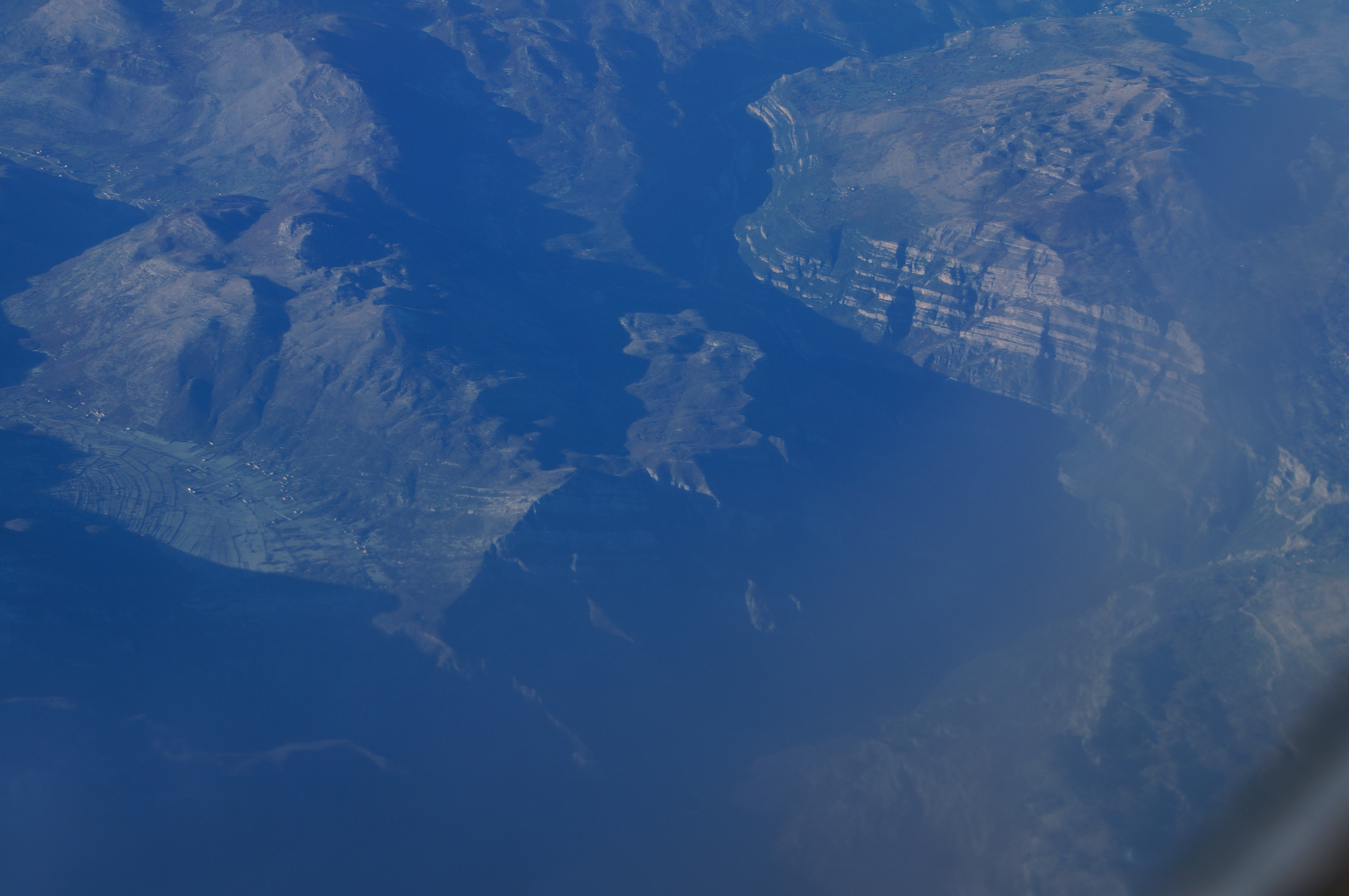 Cem valley canyon in Northern Albania close to the Montenegrin border